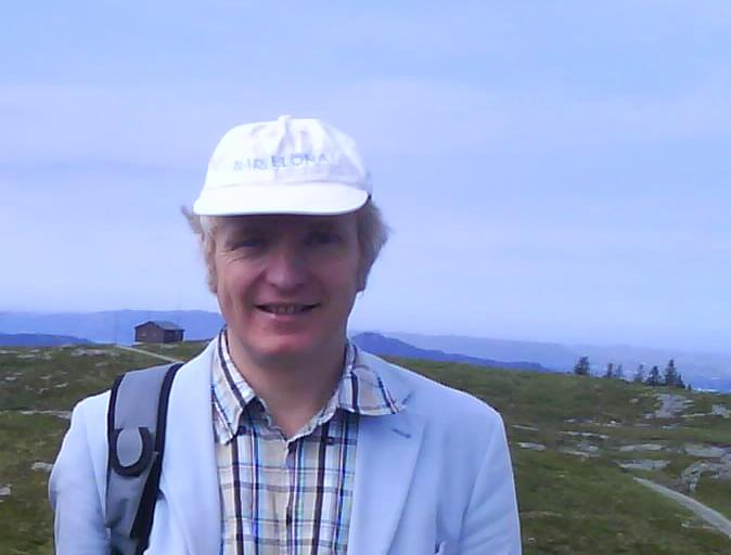 Stefan Schuster on mount Rundemanen near Bergen (Norway) in 2010